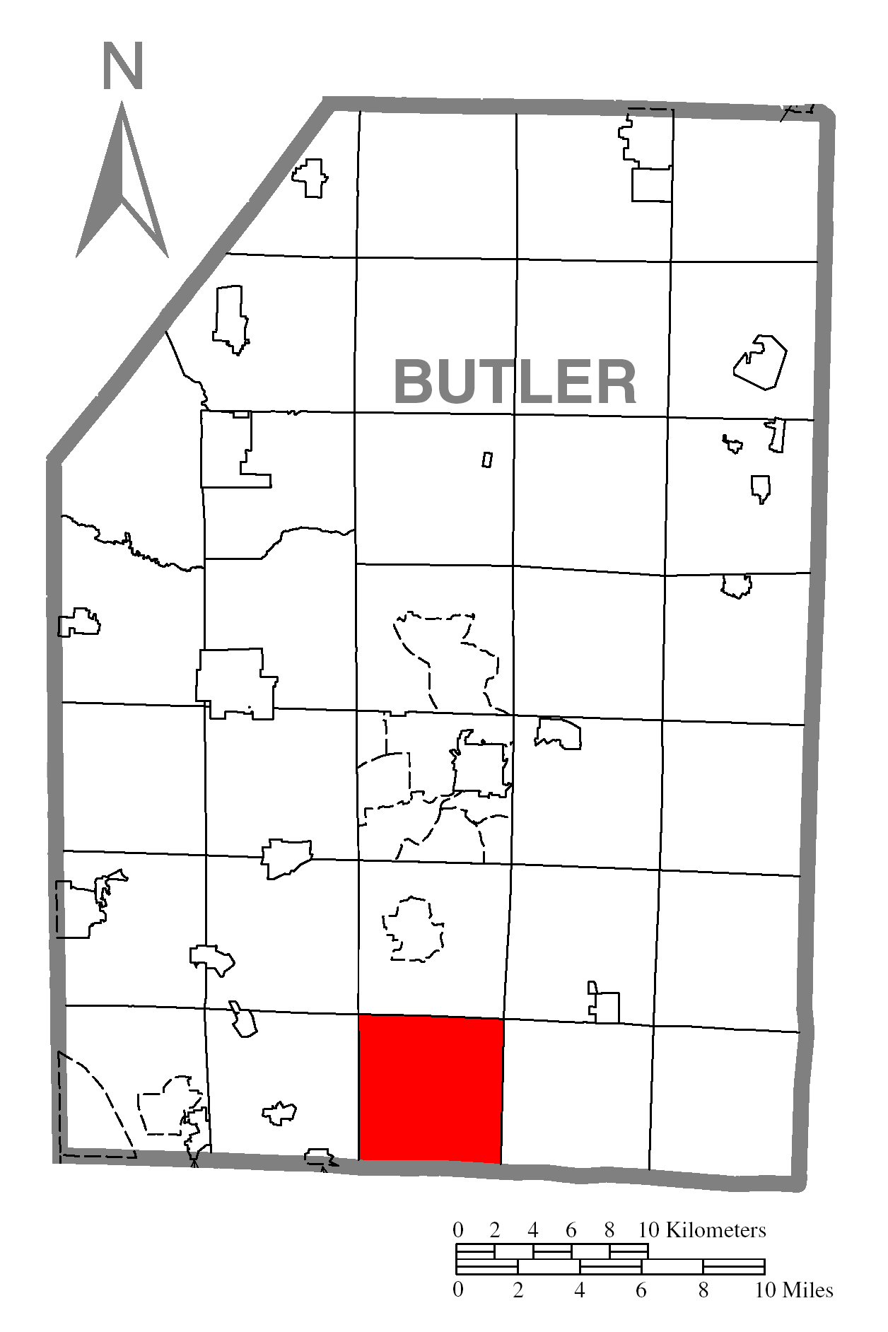 A map of Butler County showing Middlesex Township, Pennsylvania (alternate) highlighted on the map.